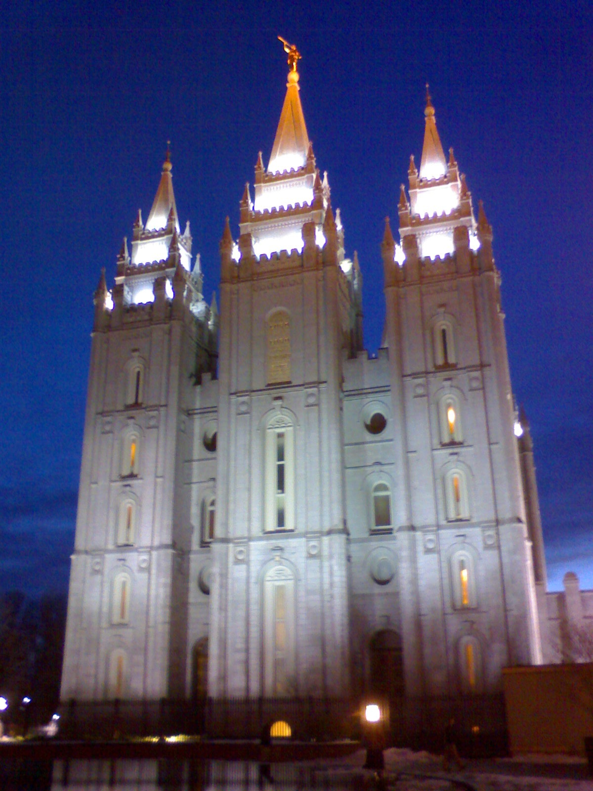 Salt Lake Temple Christmastime